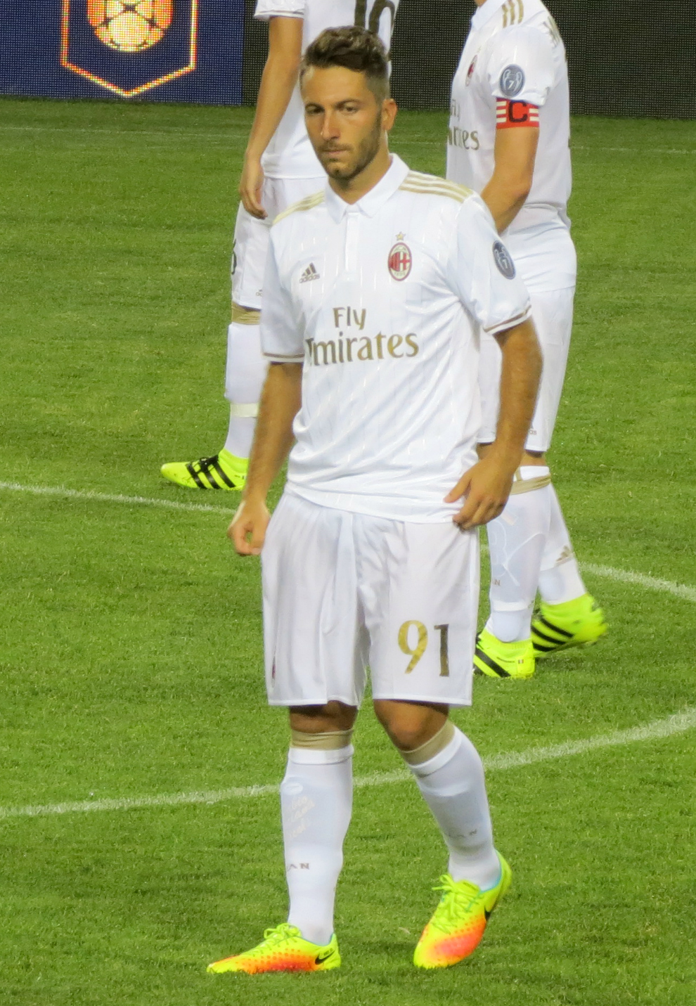 Andrea Bertolacci, Bayern Munich v AC Milan, International Champions Cup 2016